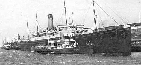 SS Cymric at Liverpool.